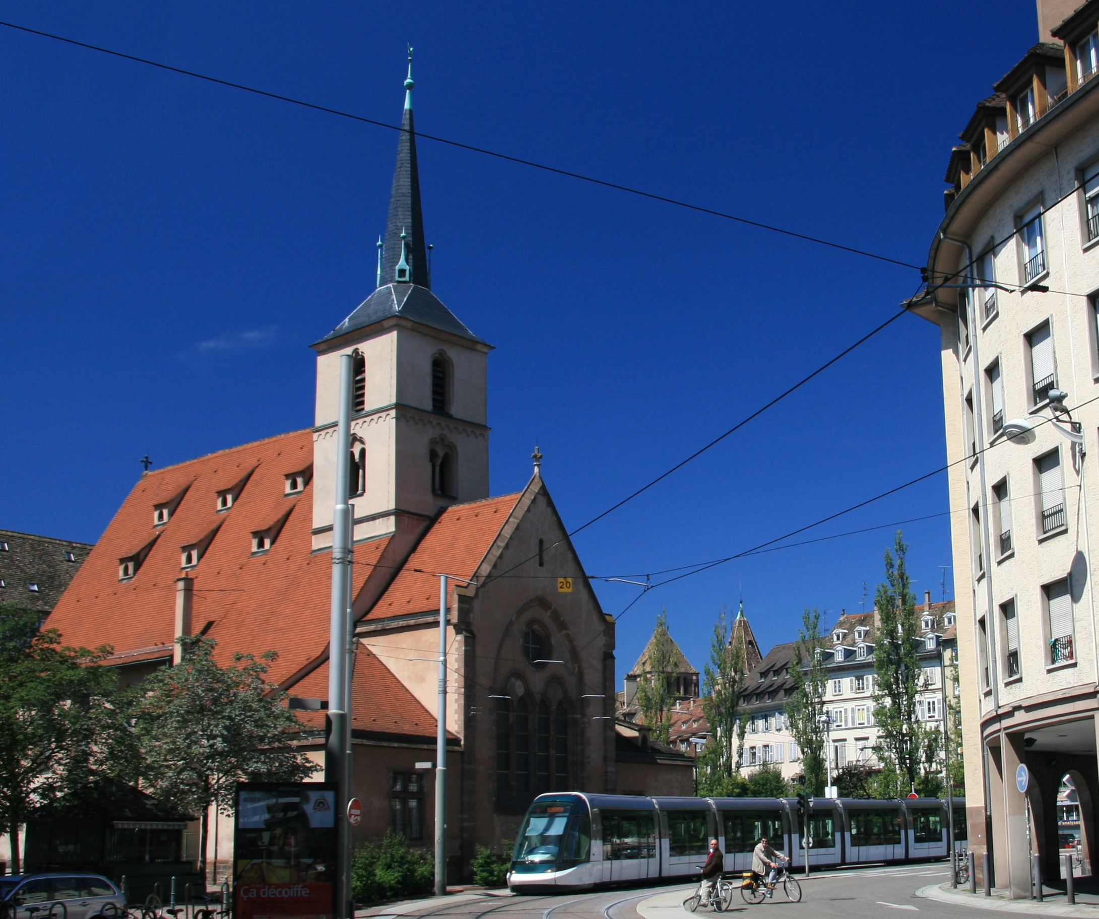 Tram in Strasbourg, with Saint Nicolas Church in the background